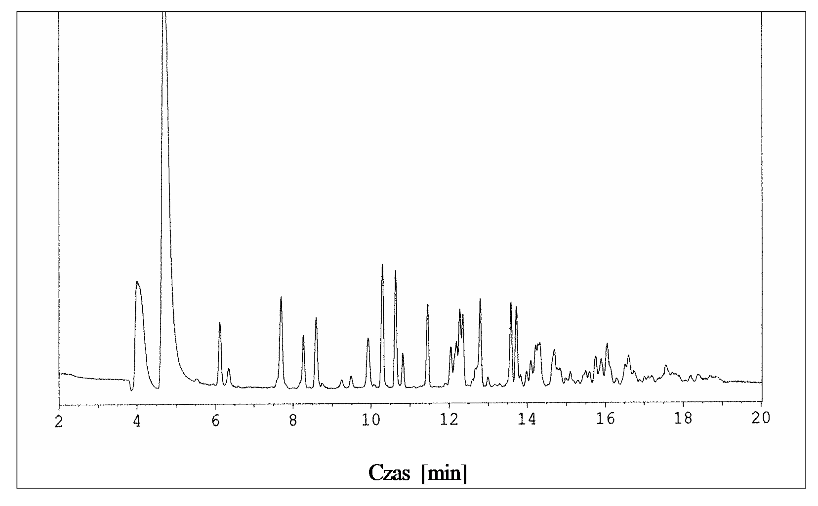 Gas chromatogram